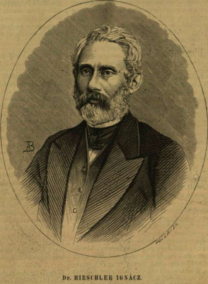 Portrait of Hirschler Ignác